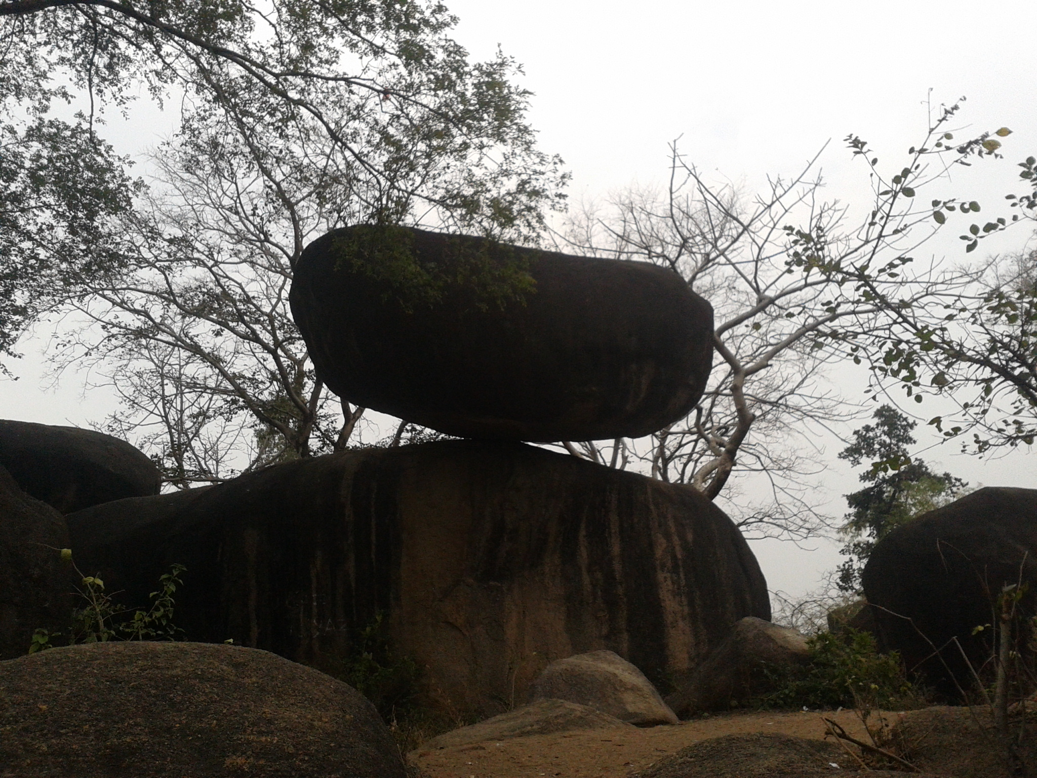 The World Famous Balancing Rock situated near the Madan Mahal Fort, Jabalpur, Madhya Pradesh, India.